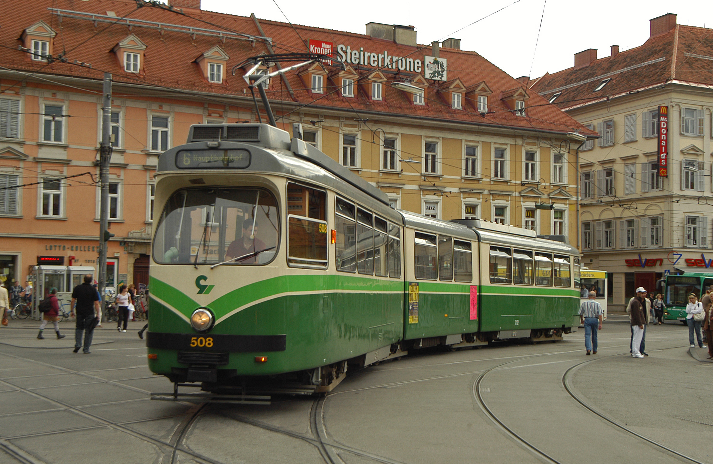 Articulated tramcar no. 508 (built in 1978) on Jakomini Square in Graz, Austria